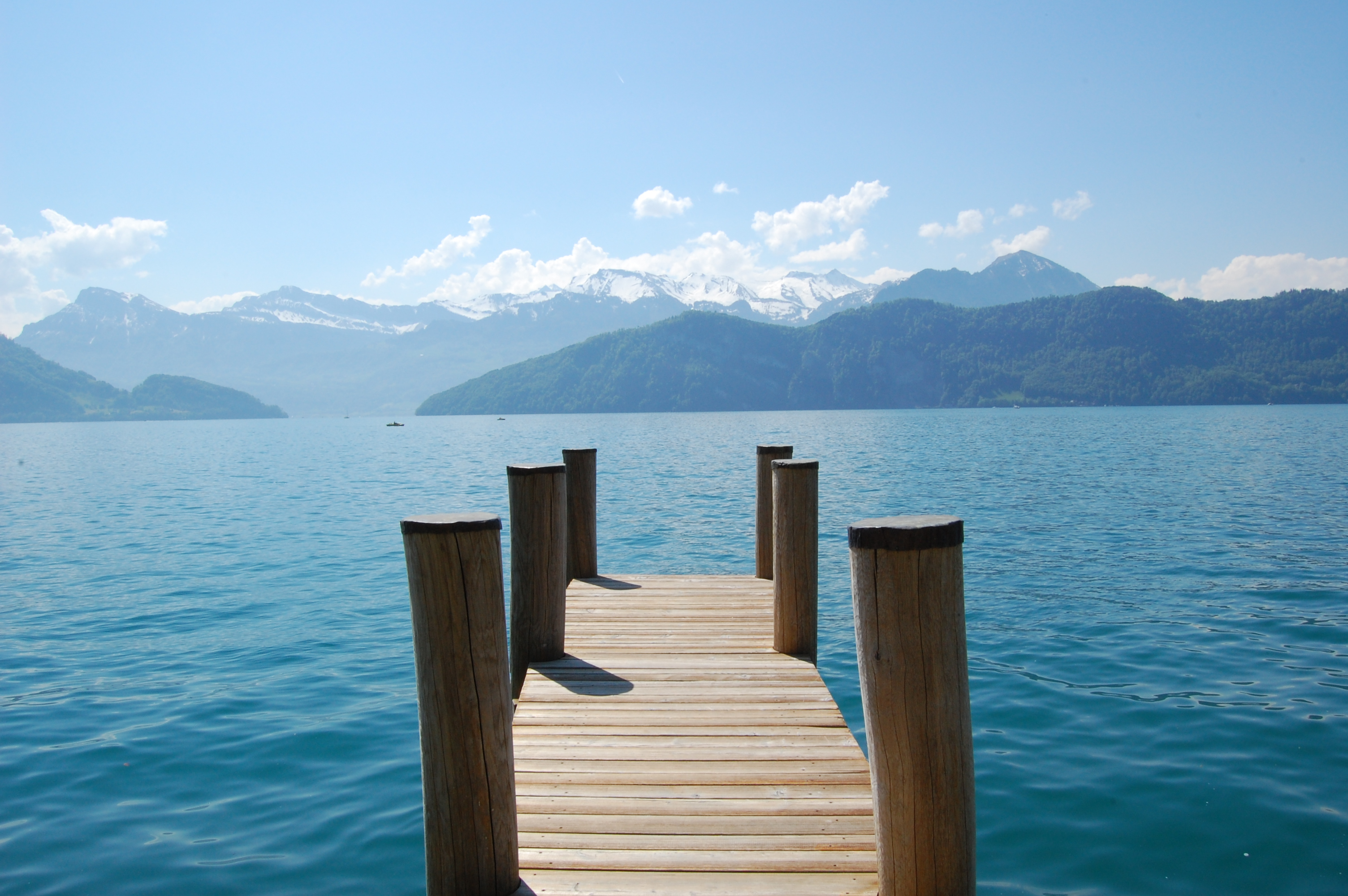 View of Lake Lucerne From Weggis